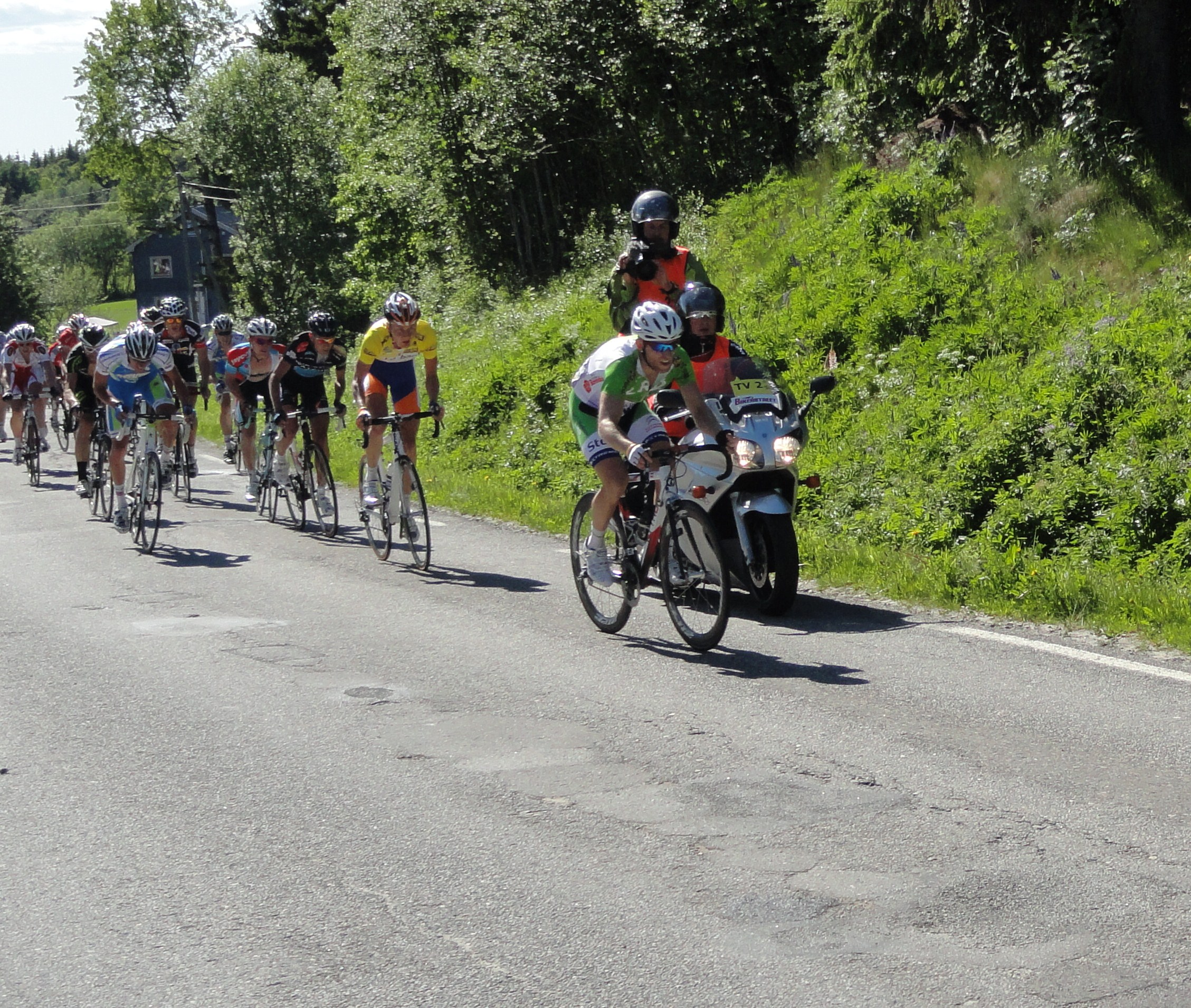 4th stage of Tour of Norway